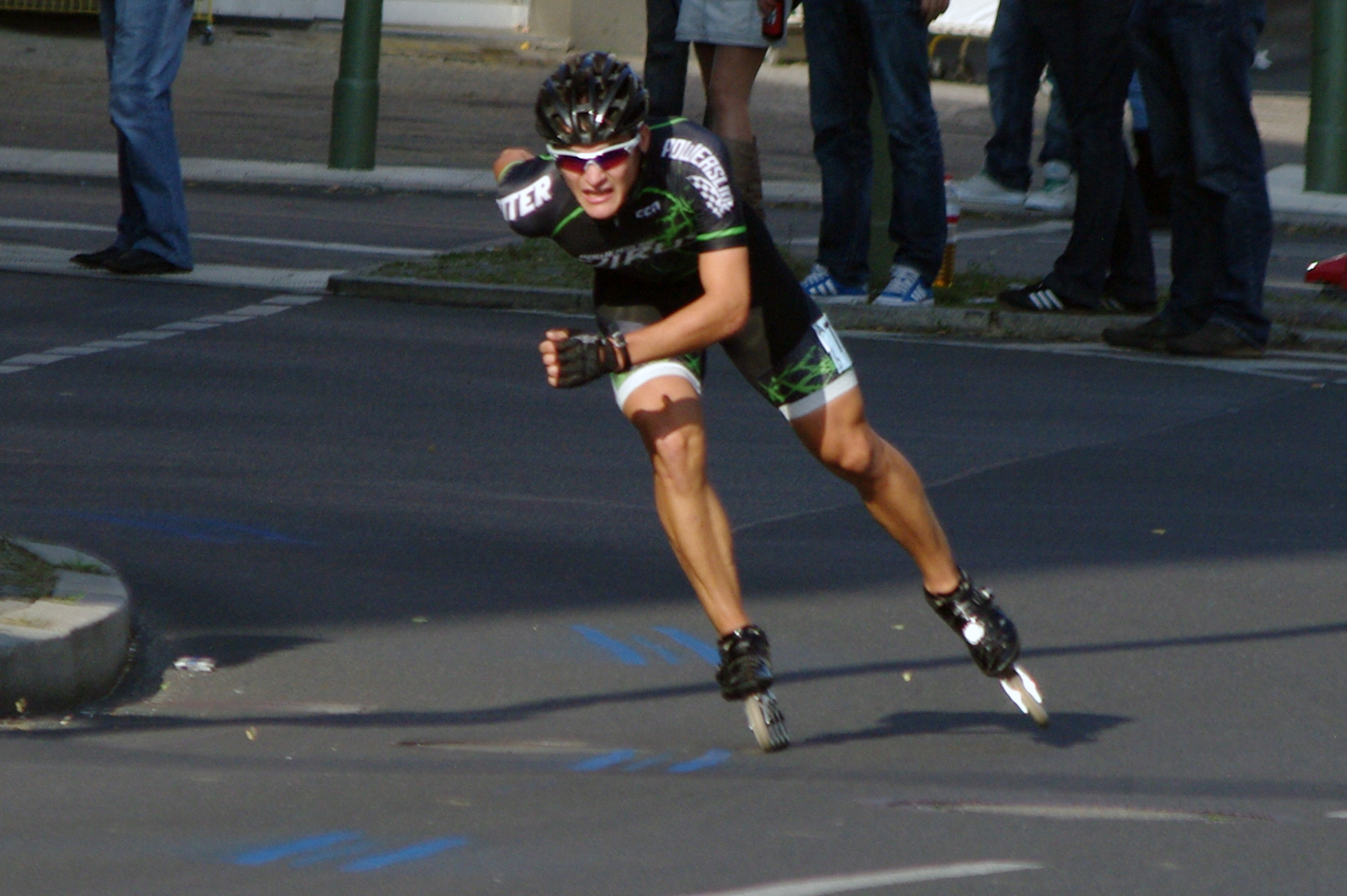 Berlin Inline Marathon 2011, Kilometer 25, Innsbrucker Platz. Leader and finally winner Ewen Fernandez